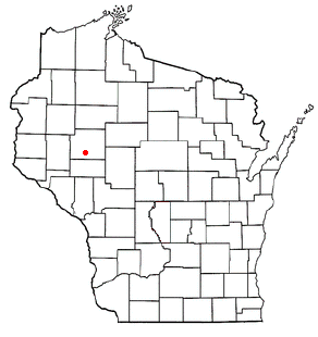 Category:Chippewa County, Wisconsin